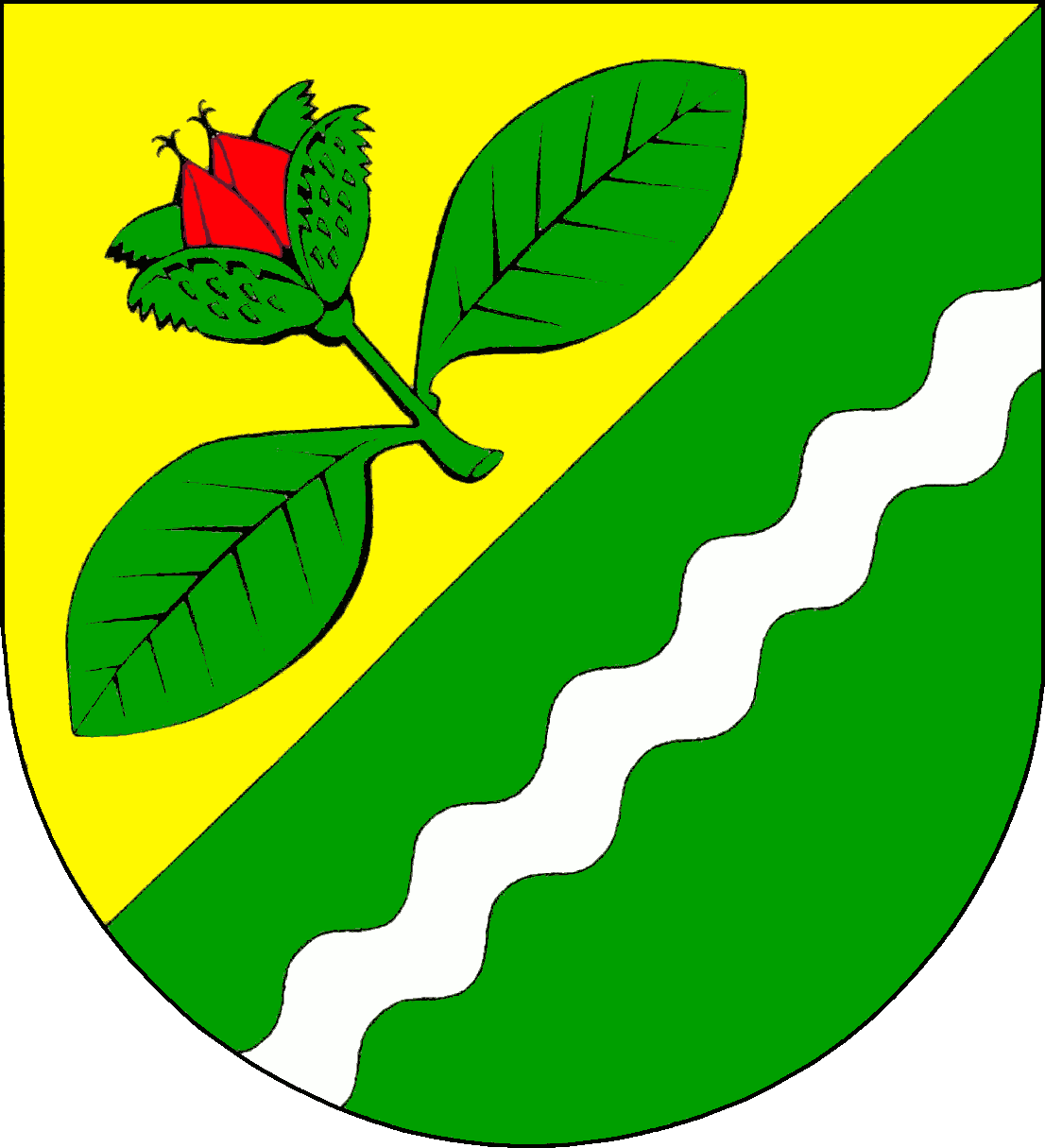 Coat of arms of the municipality Bokelrehm in Schleswig-Holstein, Germany.